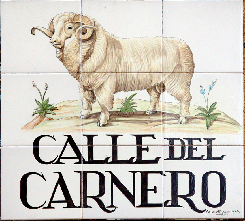 Sign of Calle del Carnero (street, Centro district) in Madrid (Spain).